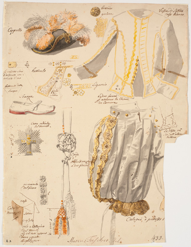 Details of the costume of the Knights of the Dannebrog. Ca. 1750. Pencil, pen, brown ink, brush, grey wash and watercolour. 354x270 mm. The Royal Collection of Graphic Art.